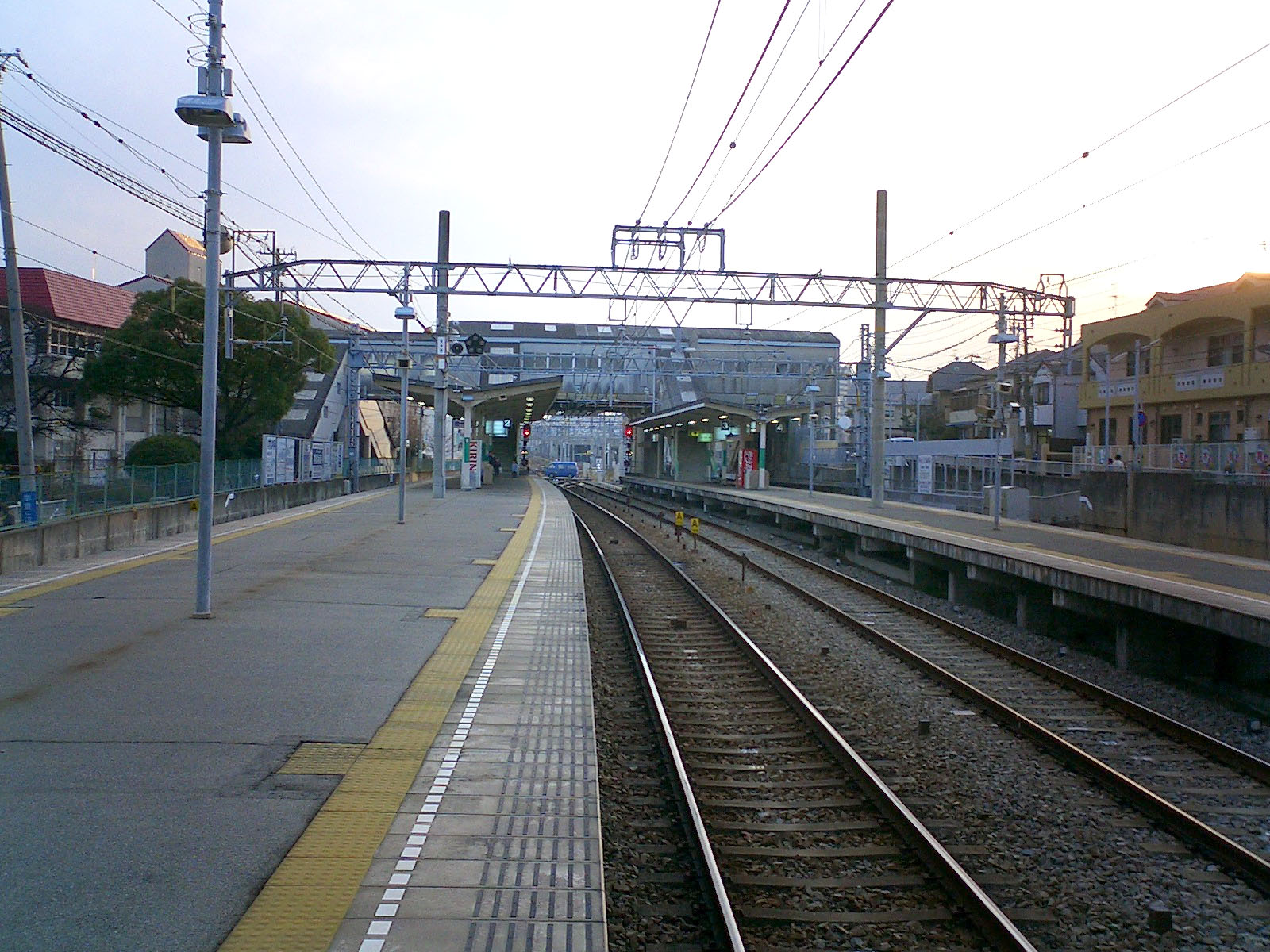 Sanyo Electric Railway Main Line Higashi-Suma Station Platform